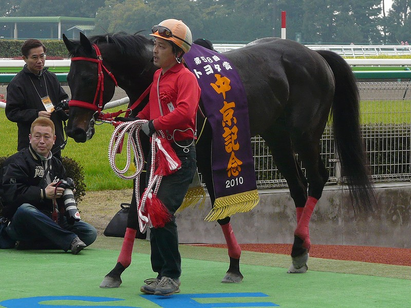 Shadow-Gate(horse)20100313